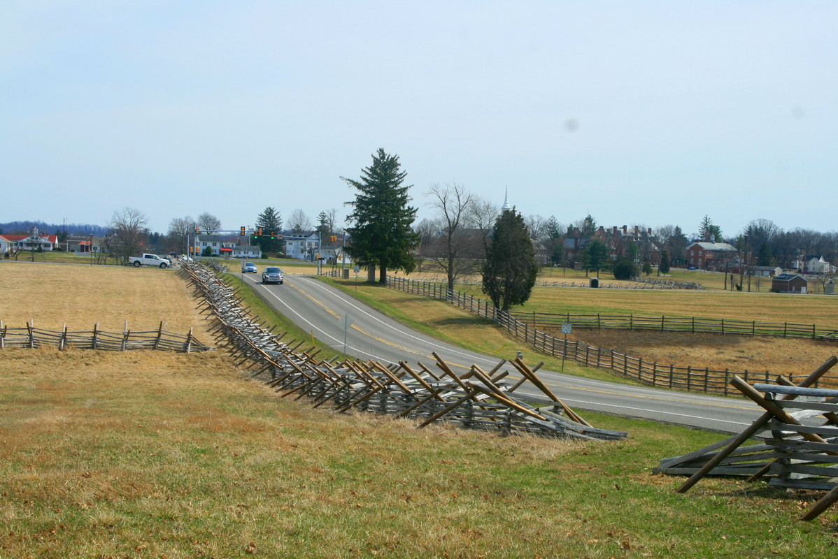 Seminary ridge at Gettysburg, view from McFerson ridge